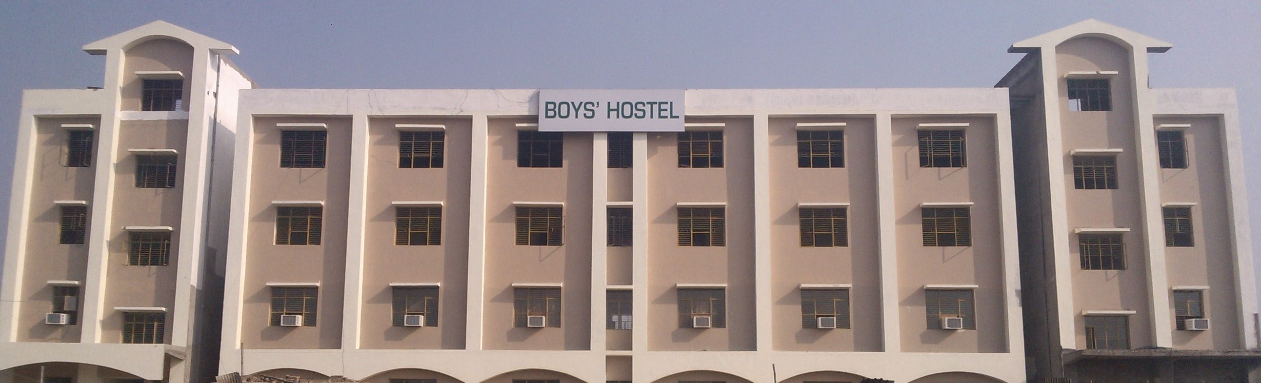 HOSTEL BUILDING OF DELHI PUBLIC SCHOOL, BAREILLY